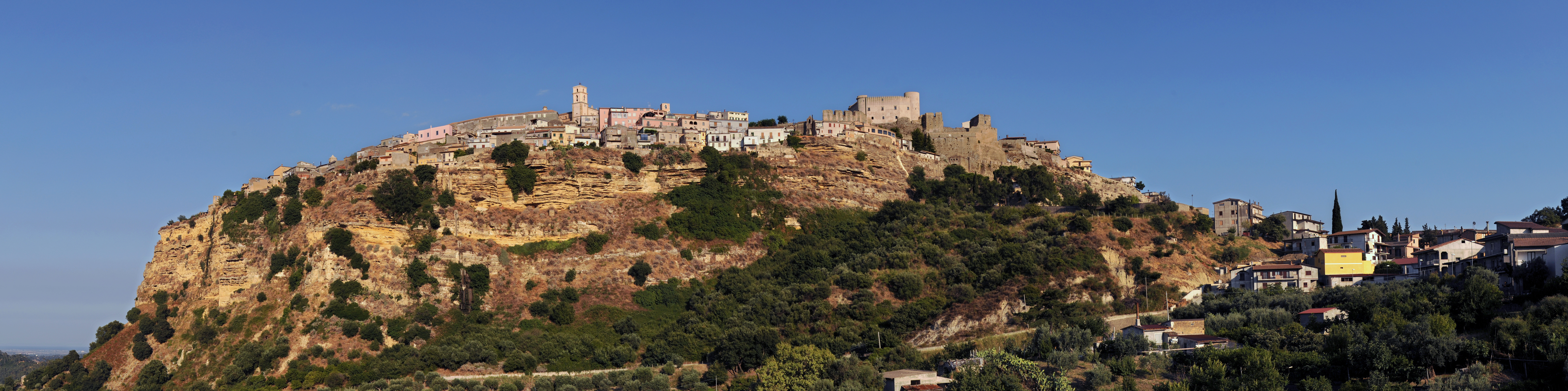 Panoramic image of Santa Severina village, Calabria, Italy.